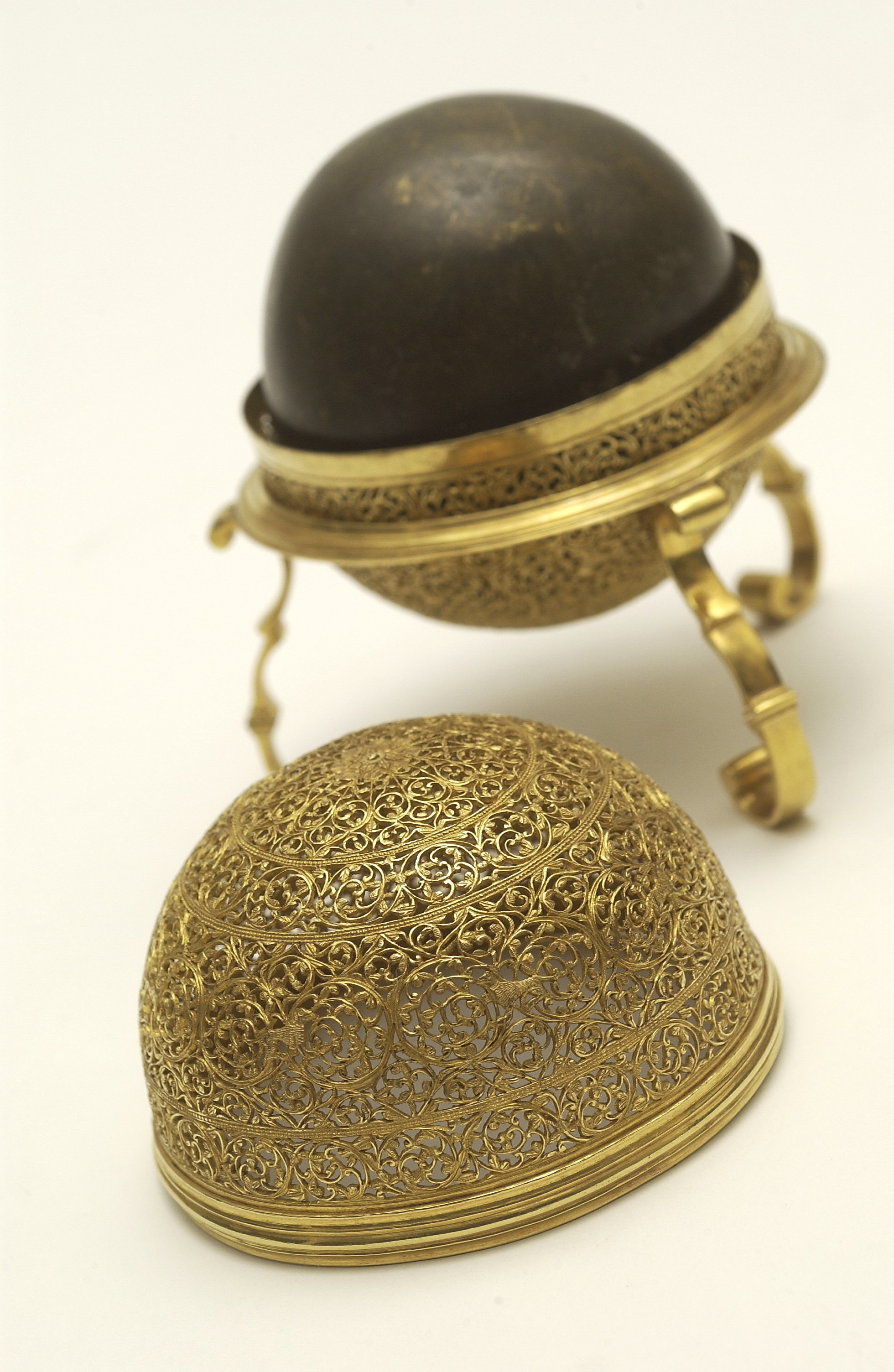 An artificially manufactured version of a goa stone found inside the stomachs of an animal (bezoar stones) and its case. Made in India from a paste of clay, crushed shell, amber, musk and resin and used for numerous complaints such as poisons Wellcome Images Keywords: Cleanse; Plague; Amulets and Charms; India